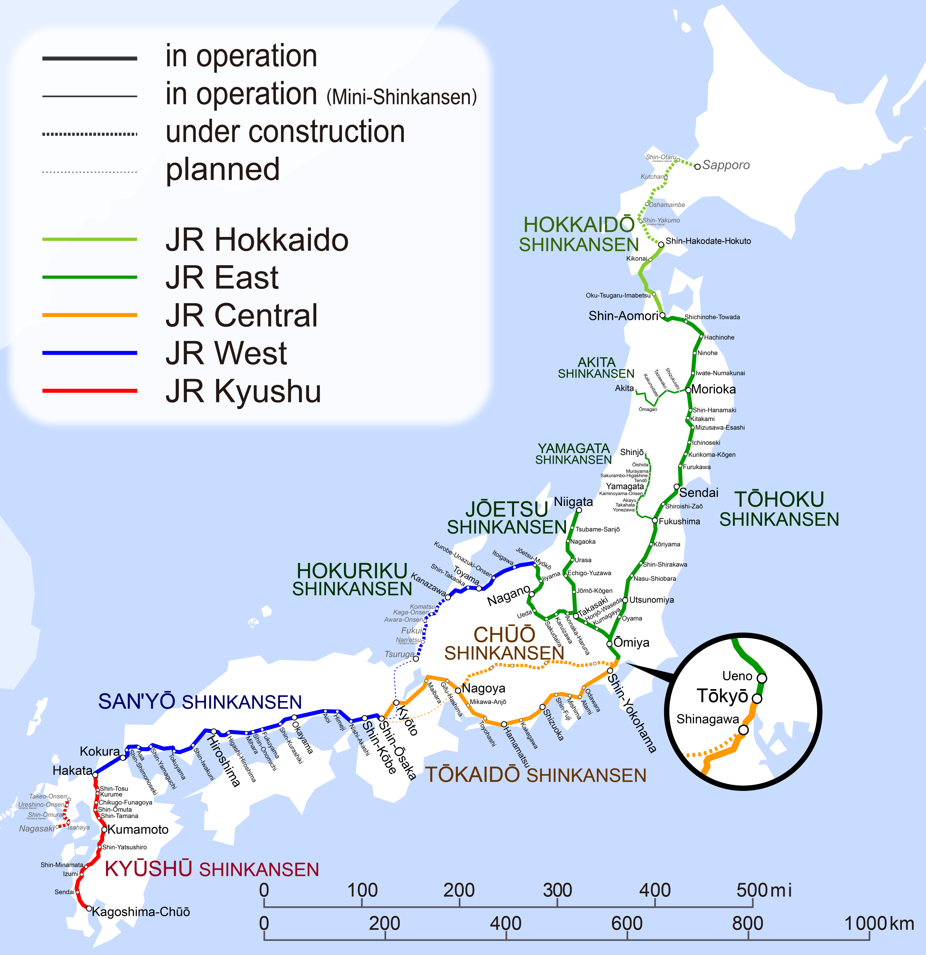 Map of Shinkansen network. (2017-03-15 - )